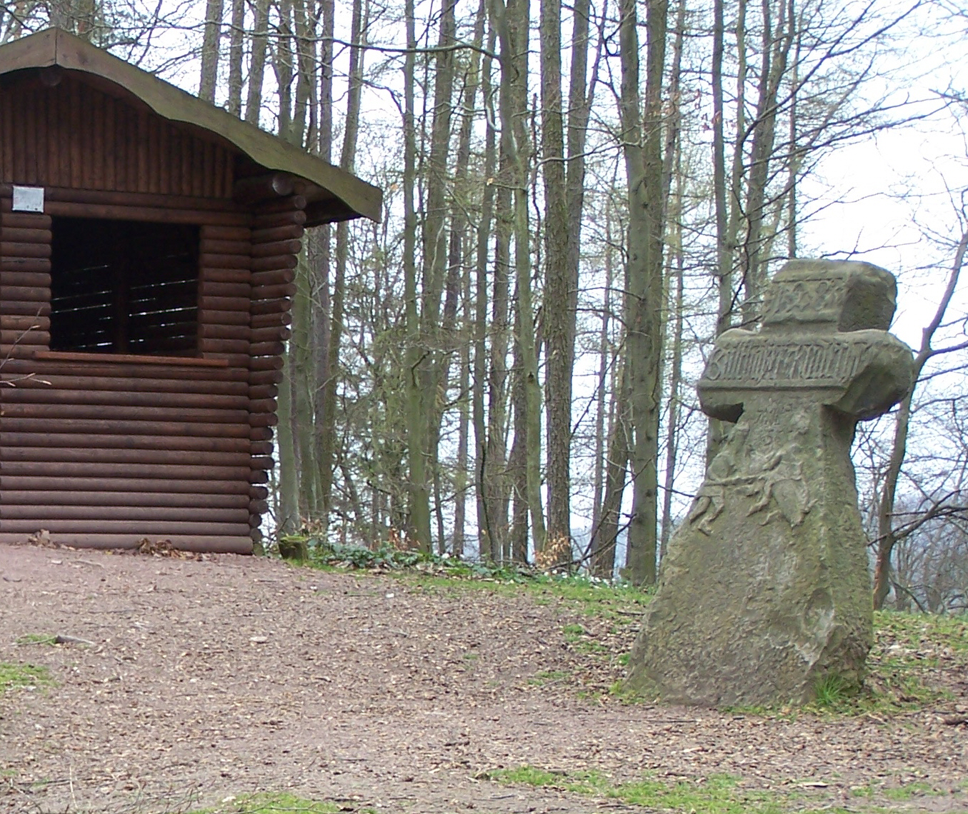 The stonecross Wilde Sau to remember a hunting accident with a wild sow.